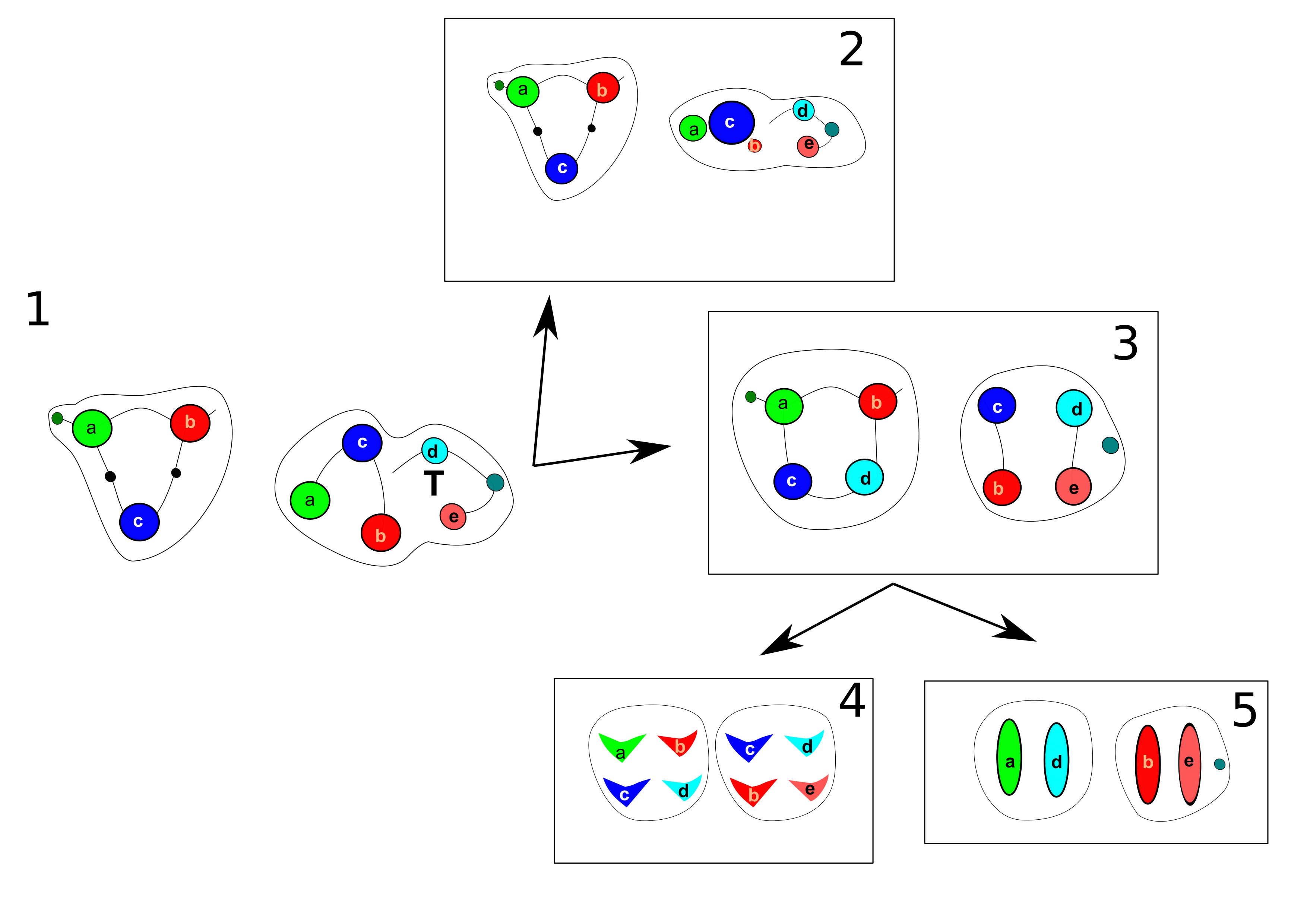 General model of different molar morphologies. 1) Tribosphenic molar; 2) Secodont molar; 3) Bunodont molar; 4) Selenodont molar; 5) Lophodont molar. Left, upper molar; right, inferior molar; T: talonid; a) green: paracone/paraconid; b) red: metacone/metaconid; c) blue: protocone/protoconid; d) light blue: hypocone/hypoconid; d) pink: entoconid; dark green: parastyle/hypoconulid; black: accesory cuspids